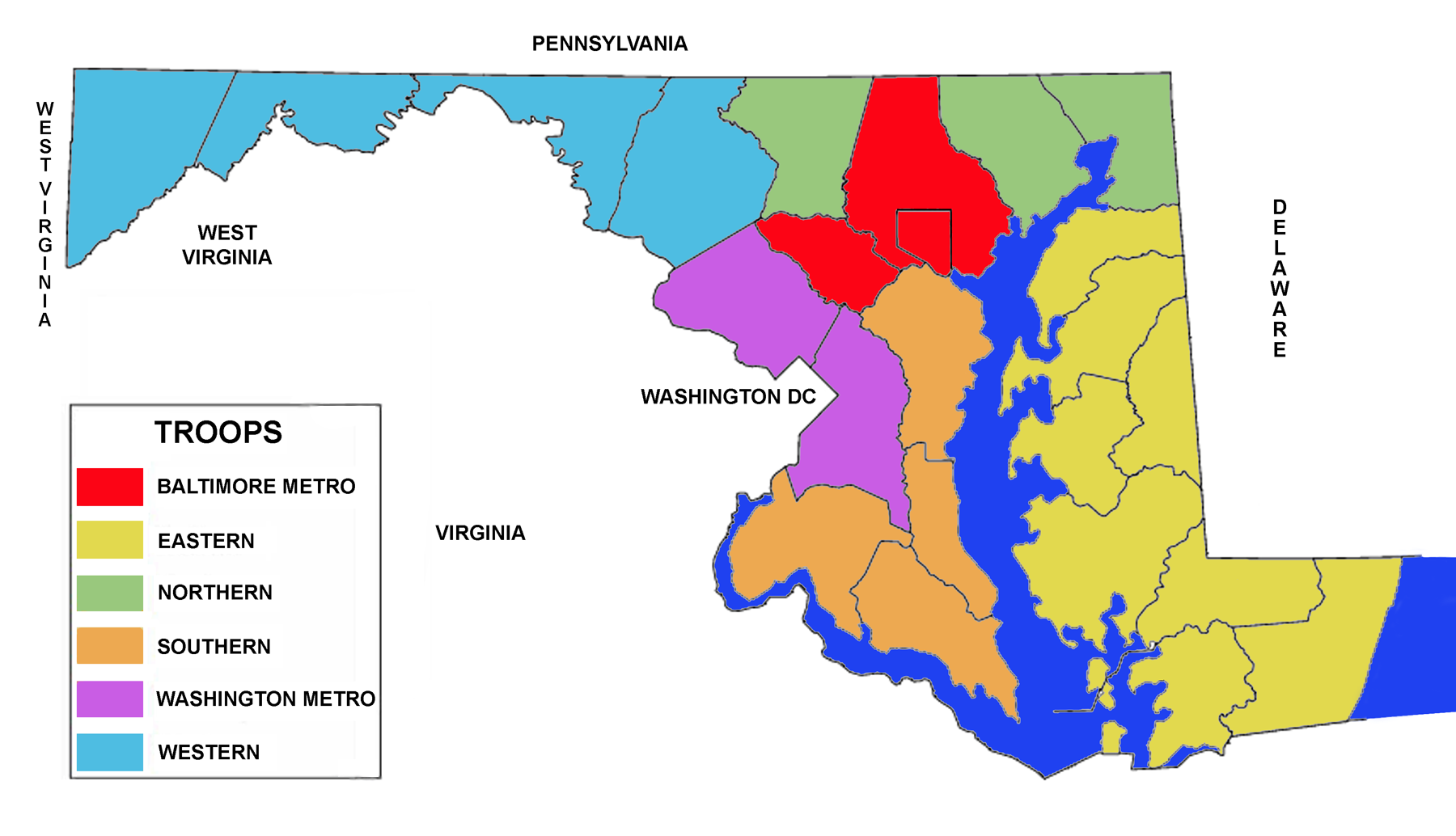 Maryland State Police Troops